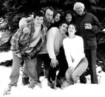 Bernie Sanders Family